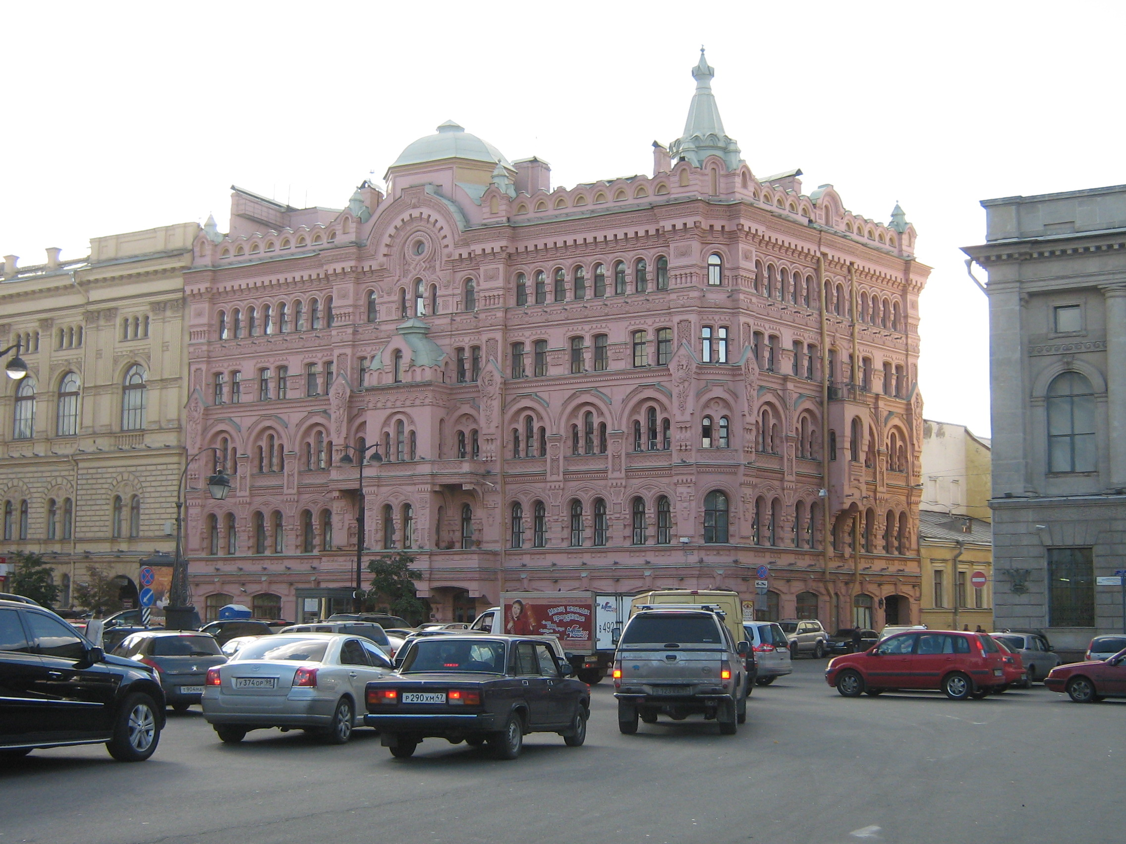 Saint Petersburg (Russia), Nevsky Avenue.